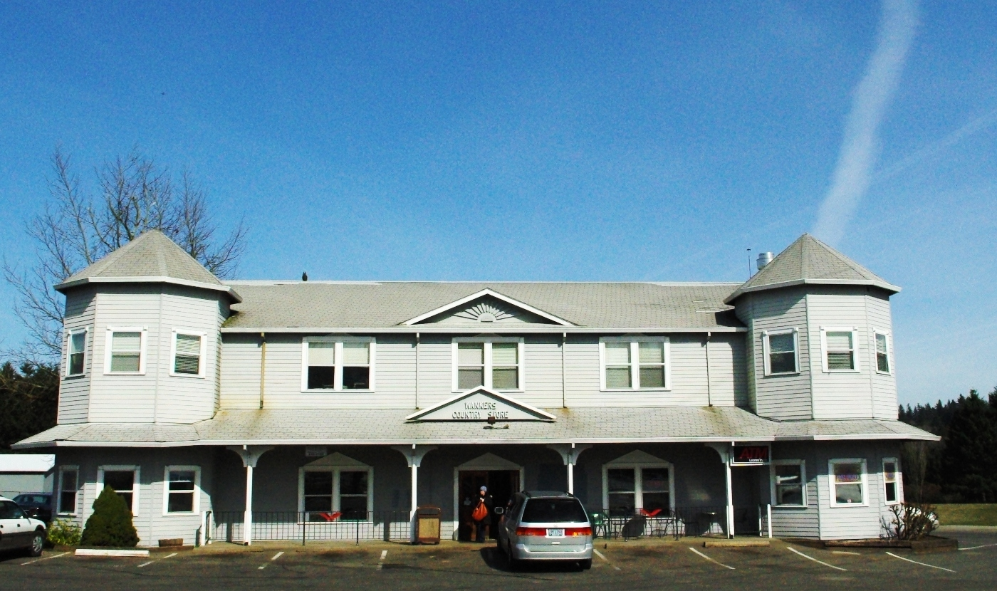 Wanker's Country Storein Wankers Corner, Oregon, USA